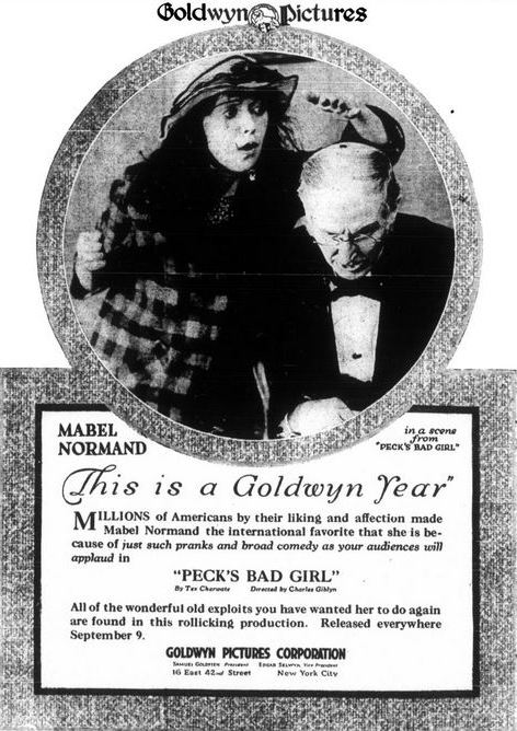 Ad for the American film Peck's Bad Girl (1918) with Mabel Normand and Edward M. Favor, on page 36 of the August 30, 1918 Variety.